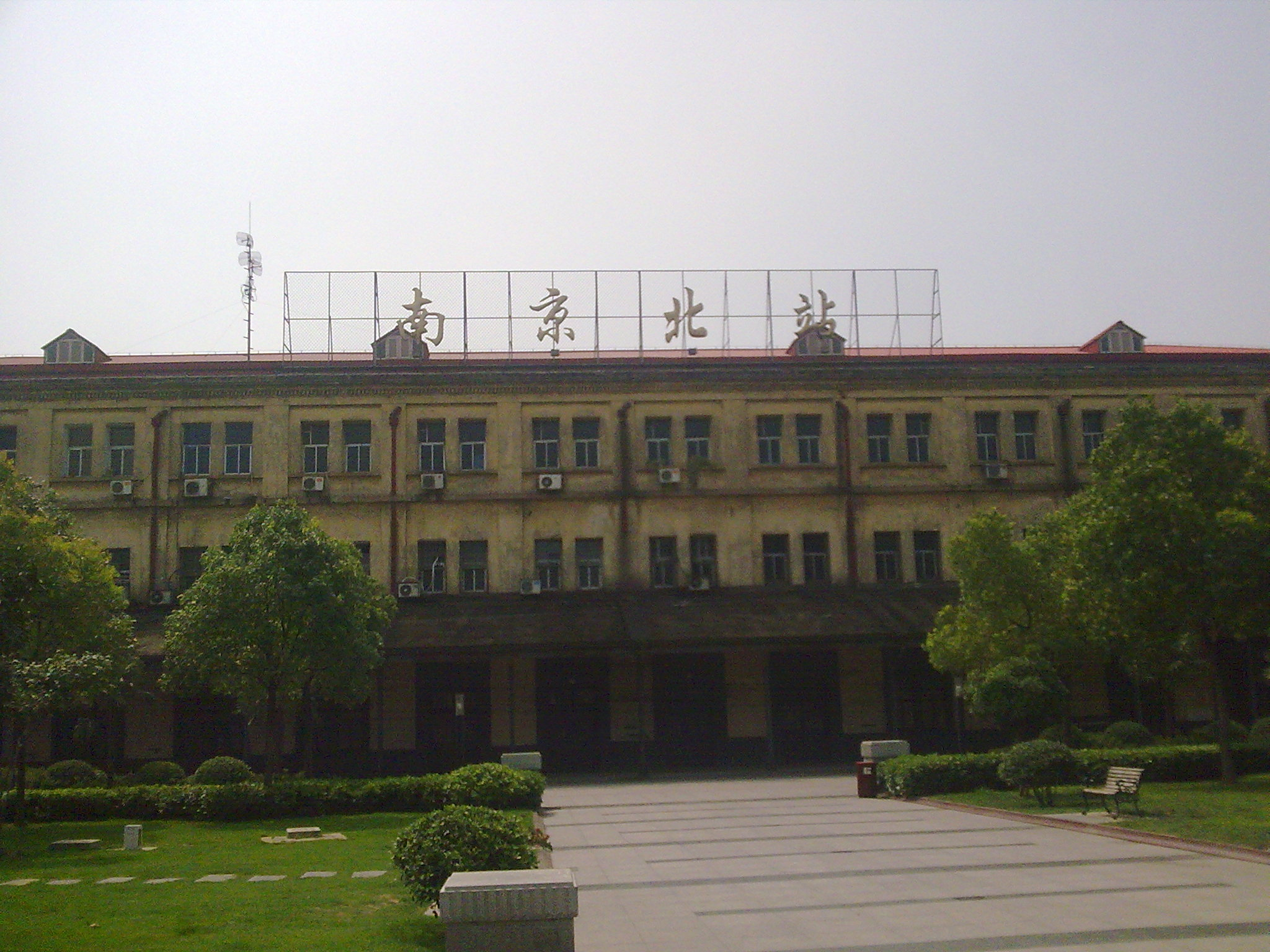 Nanjing North Railway Station 中文（中国大陆）: 南京北站（浦口火车站）